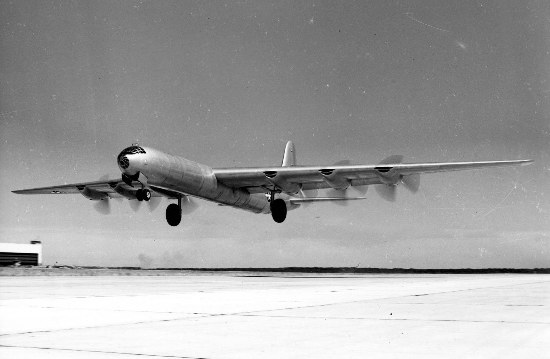 Convair XB-36 main landing gear detail